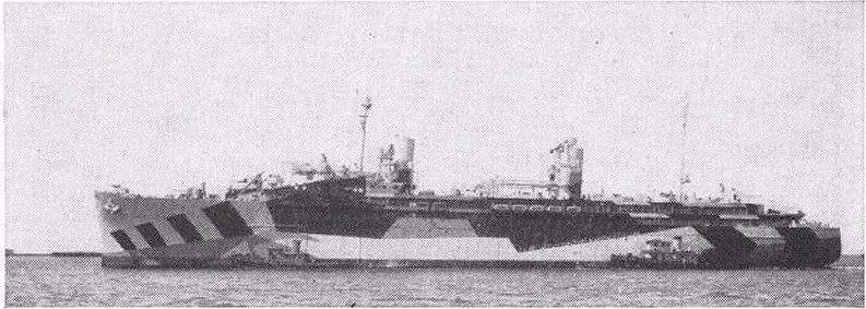 The U.S. Navy repair ship USS Jason (ARH-1) at anchor, in 1944-1945. She is painted in Camouflage Measure 32, Design 4Ax. Jason was redesignated AR-8 on 9 September 1957.